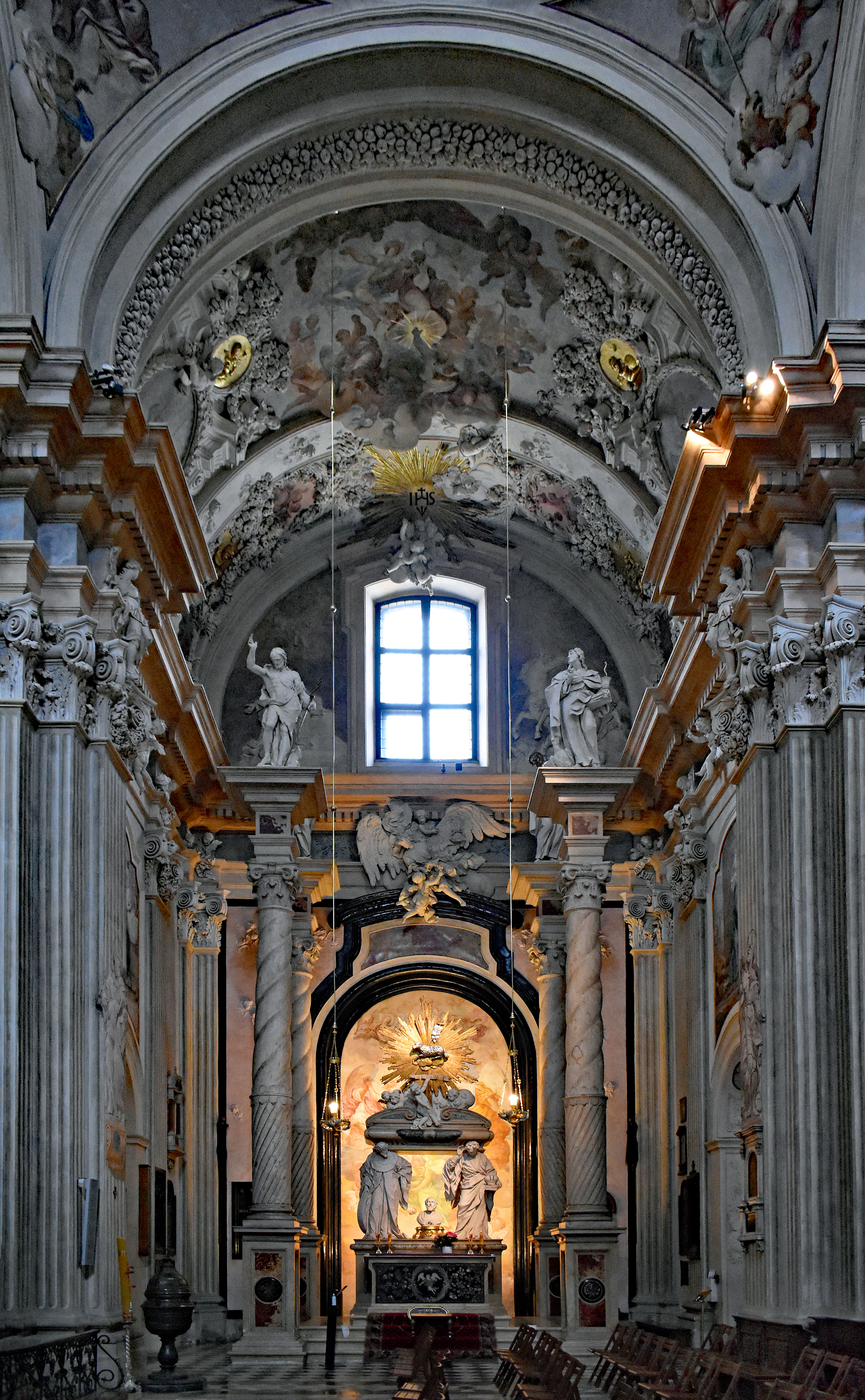 Church of St. Anne, grave of St John Cantius , 13 sw. Anny street, Old Town, Krakow, Poland